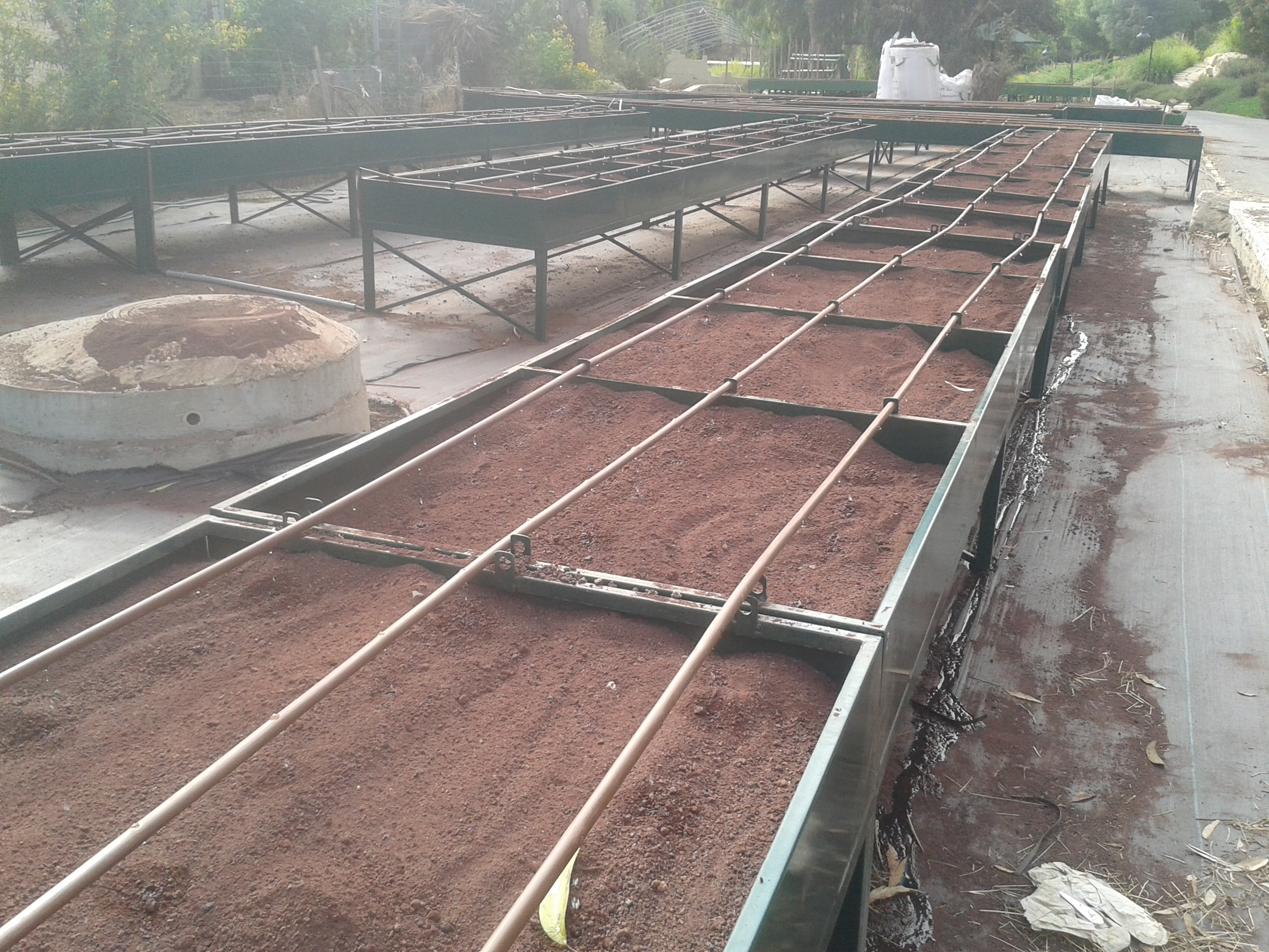 Tuff and Irrigation system in school garden, botanical garden, Jerusalem, Israel